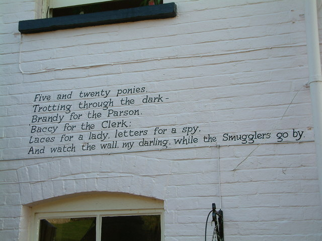 Inscription on Smugglers Inn, Osmington Mills An amusing poem painted on the wall of the Smugglers Inn. (It is based on Rudyard Kipling's 'A Smuggler's Song').